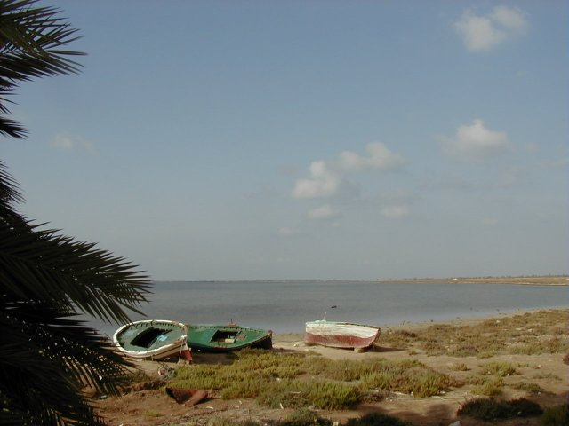 Djerba coastsouth coast of Djerba island